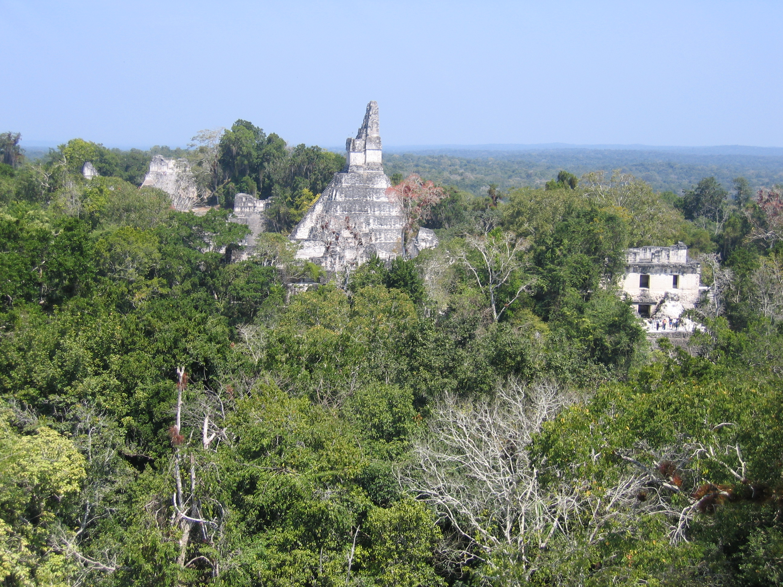 From the mayan site Tikal